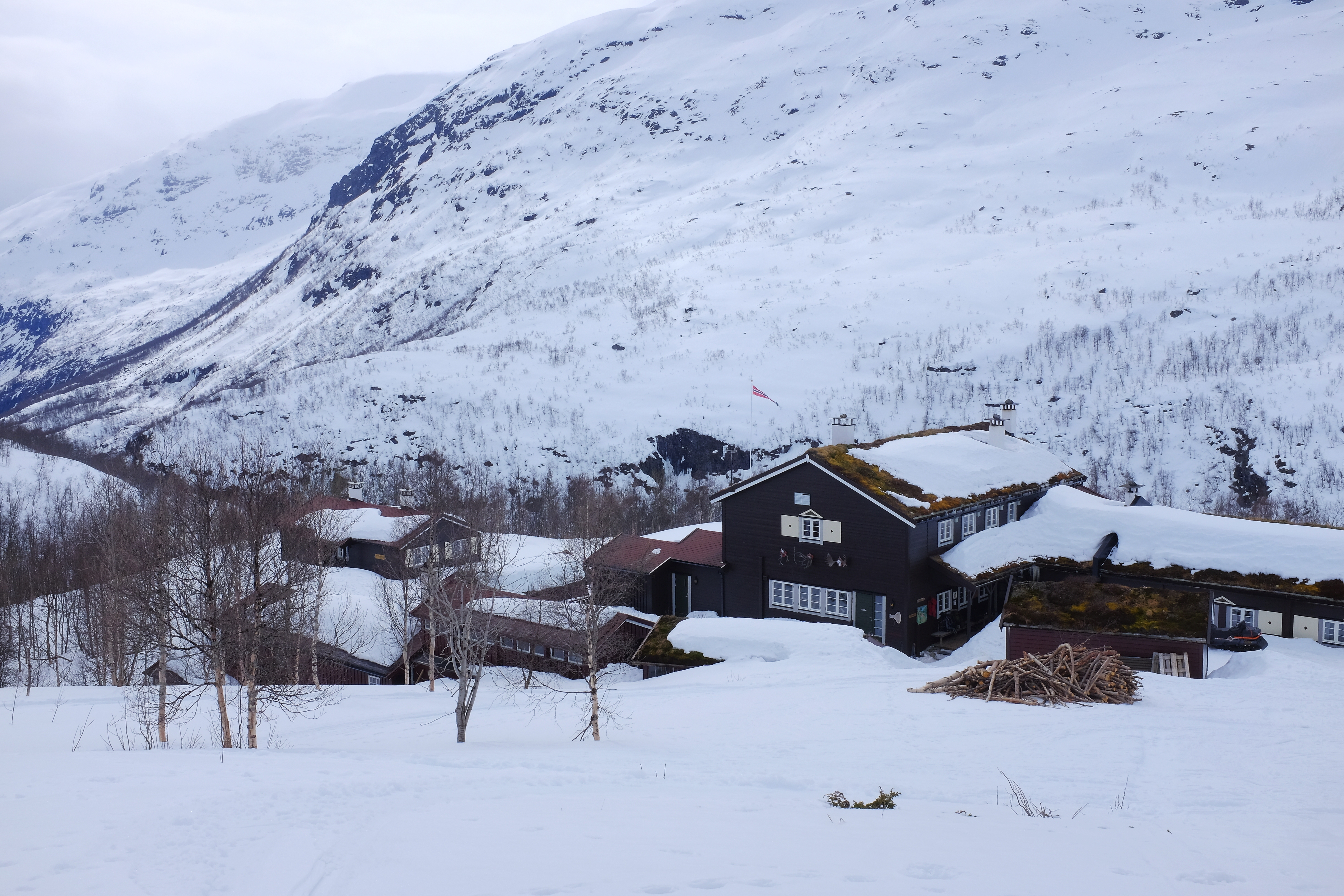 Skogadalsbøen mountain lodge, Jotunheimen National Park, Norway.